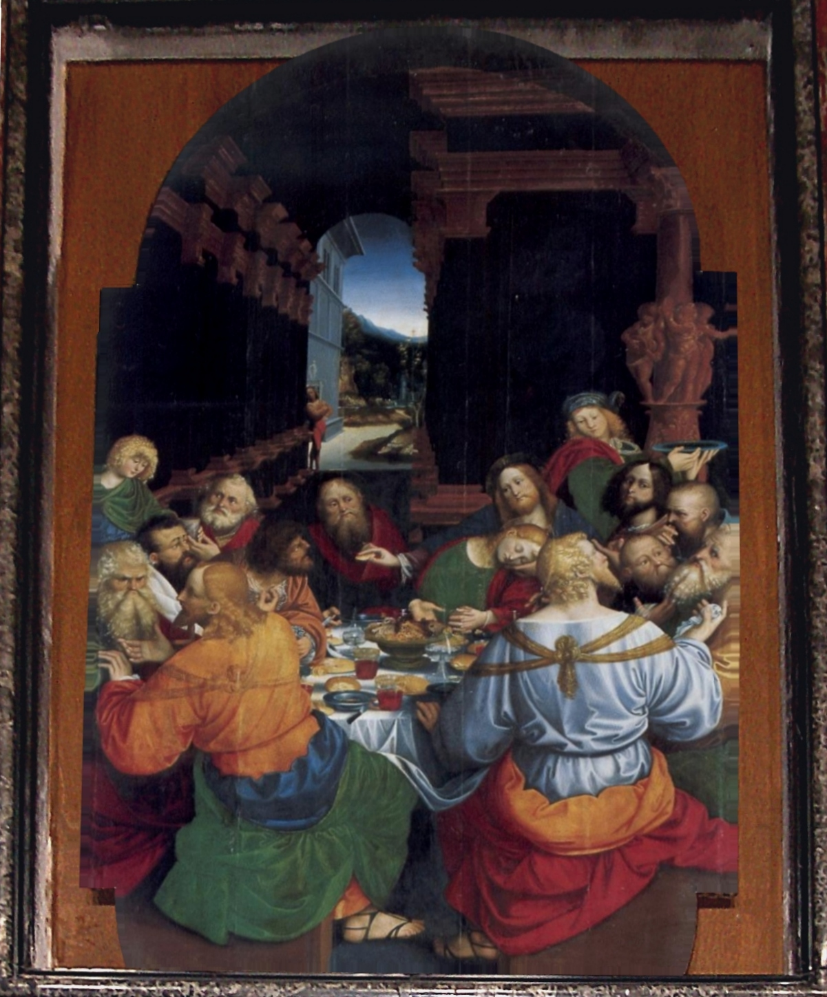 The Last Supper